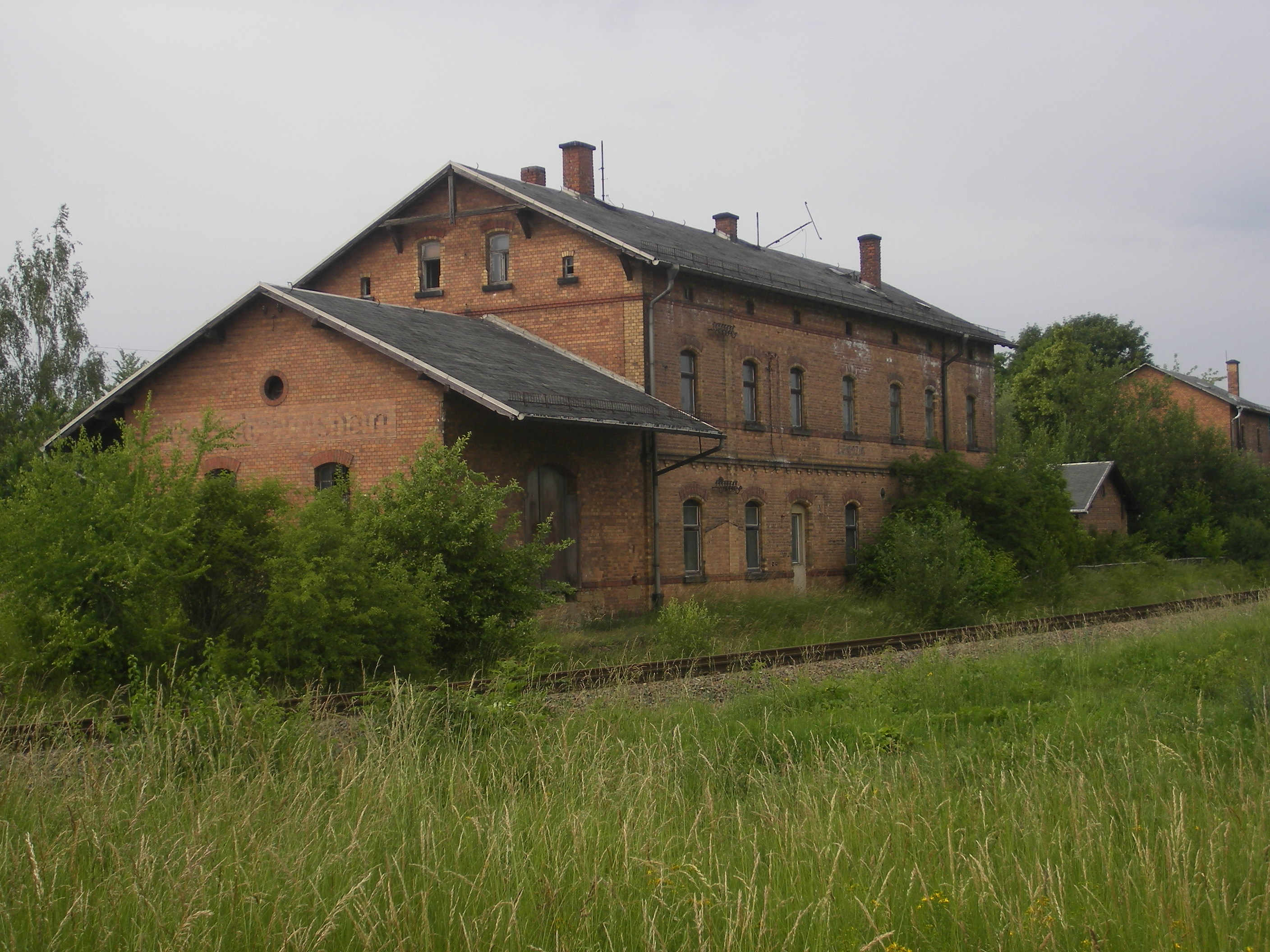 Ancient train station in Lumpzig-Großbraunshain/Hartha near Altenburg/Thuringia